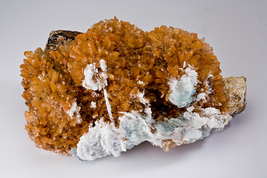 Creedite, Gearksutite Locality: Navidad Mine (Mina Navidad; Abasolo Mine; Rodeo Mine), Abasolo, Rodeo, Municipio de Rodeo, Durango, Mexico (Locality at ) Size: large cabinet, 25.5 x 15.4 x 12.5 cm Creedite with Gearksutite This specimen must have a hundred crystals exceeding 1 cm, many 1.5 cm. It has great color, lustre, and intensity normally not seen in large creedites from this locale (in the past, bigger ones tended to pale out in color). It is nearly complete on both sides and is complete around the top and sides. Associations with fluorite and a strange sparkly, brecciated quartz deposit on the lower portion give some needed contrast and helps show the dimensionality. This huge specimen weighs 10 pounds and is nearly a foot across. From the new finds of July-August 2009.